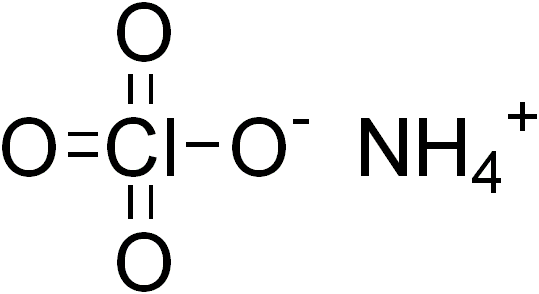 chemical structure of ammonium perchlorate